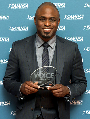 Wayne Brady holds his 2015 SAMHSA Special Recognition Award.